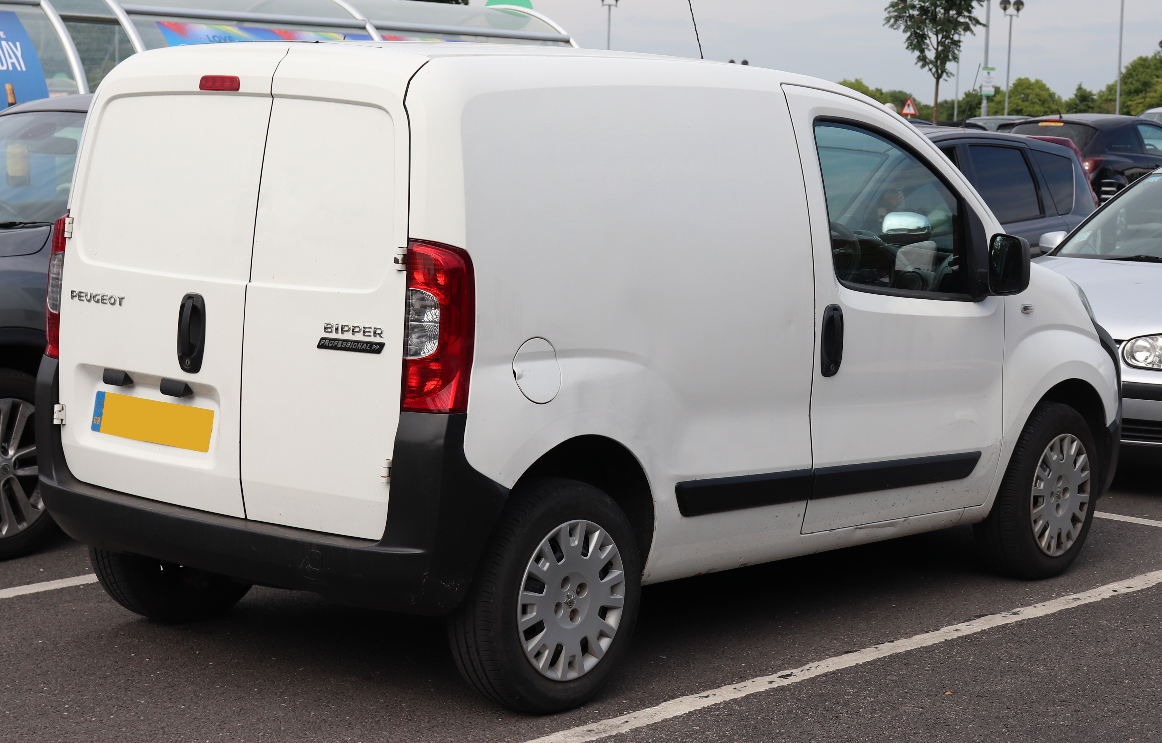 2010 Peugeot Bipper Professional HDi 1.4 Rear Taken in Leamington Spa